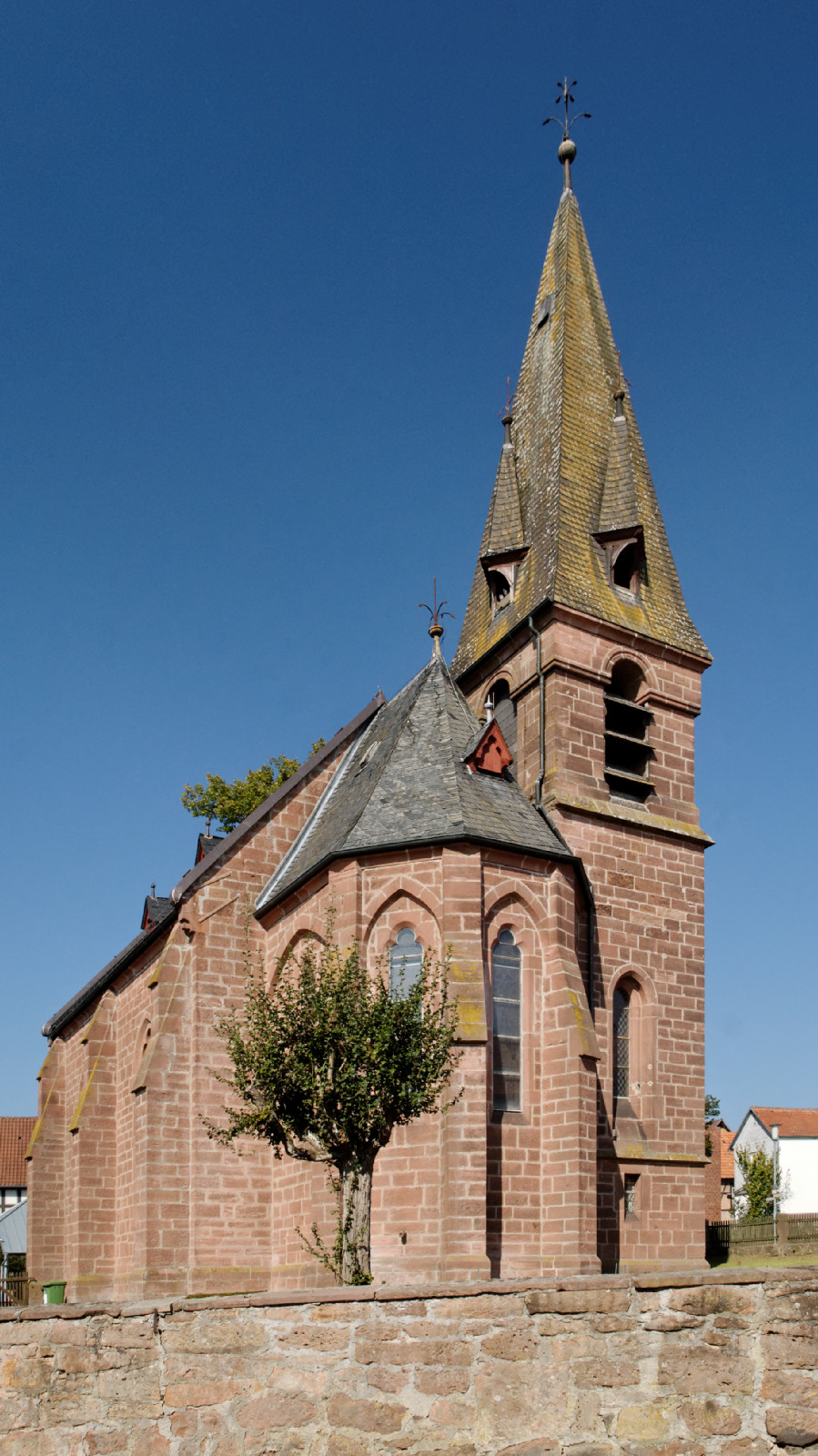 Church St. Nikolaus in Kirchhain-Himmelsberg, Germany